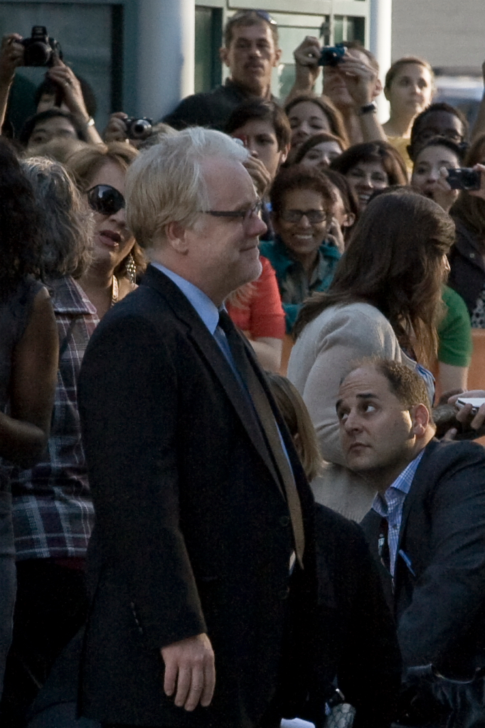 At the premiere of "Moneyball", directed by Bennett Miller, during the Toronto International Film Festival, 2011